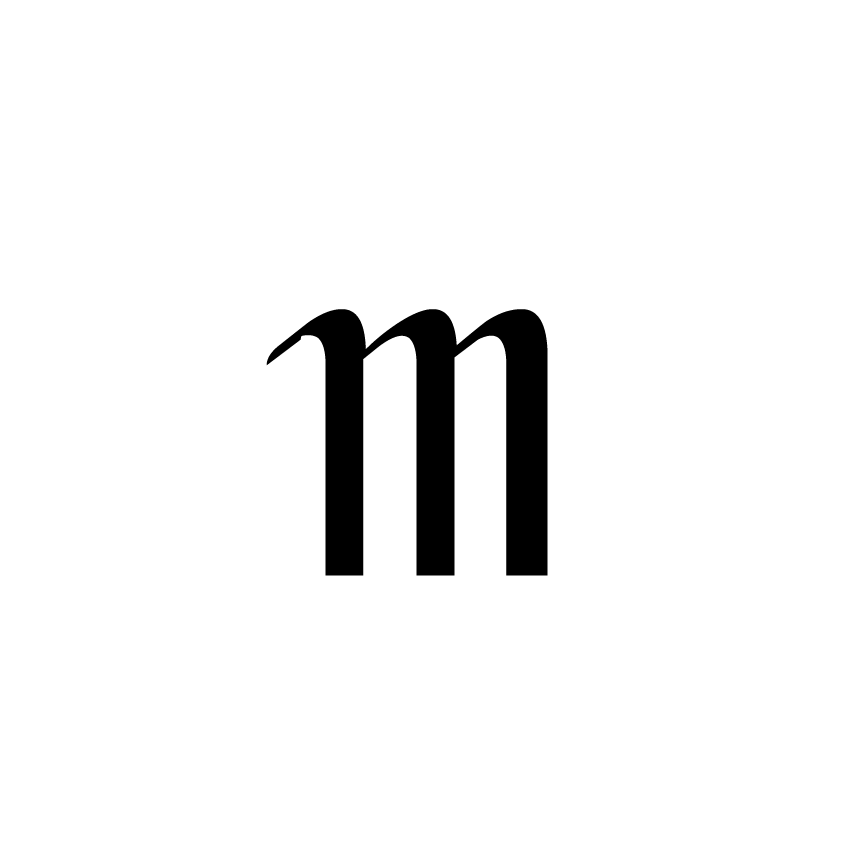 Javanese number 1